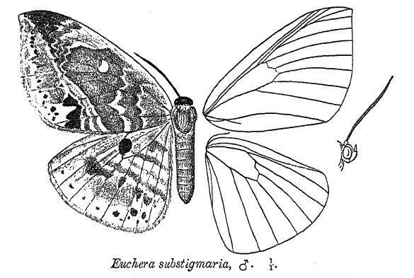 Male Euchera substigmaria = Cyclidia substigmaria (Hübner, [1831]), upperside, wing venation, head from lateral